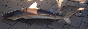 Juvenile silky shark (Carcharhinus falciformis) caught on a pelagic longline